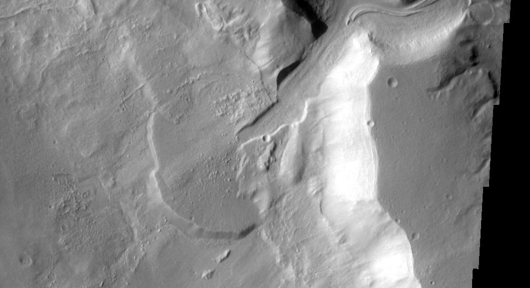 Delta in Ismenius Lacus, as seen by themis. Location is 33.9 N and 17.5 E.